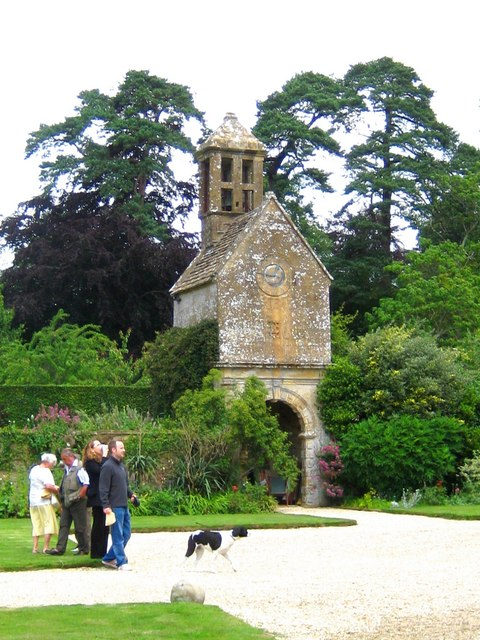 The Alcove - Brympton d'Evercy House